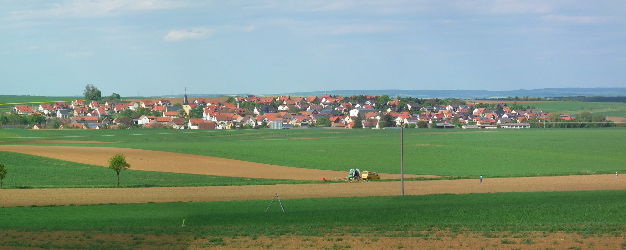 Village of Püssensheim, Prosselsheim, Lower Franconia, Germany